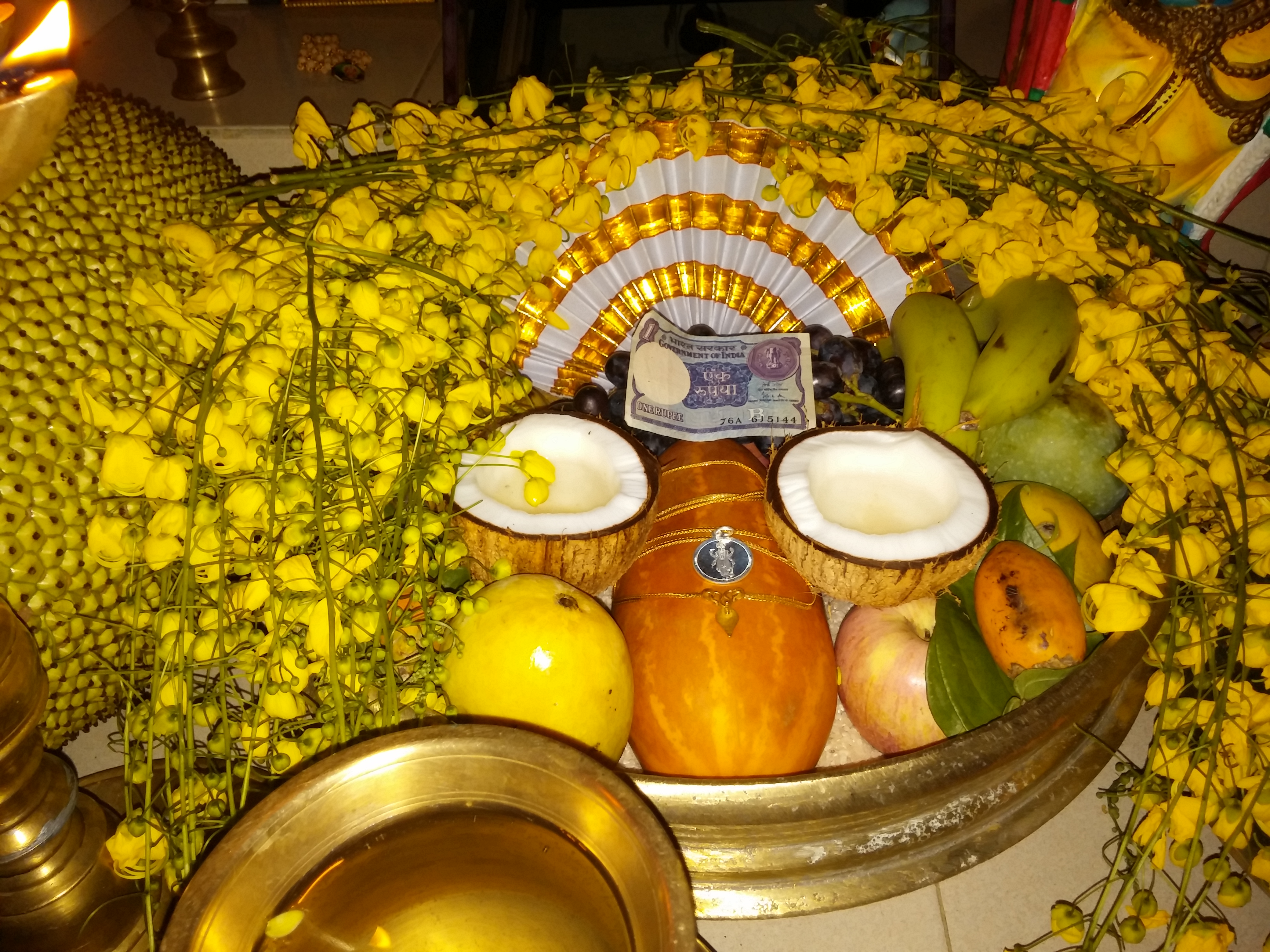 Vishu Kani Special Foods and Fruits